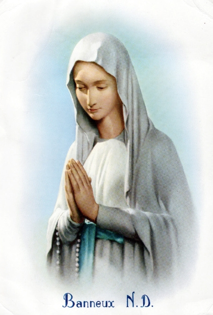 (Brothers of Christ)